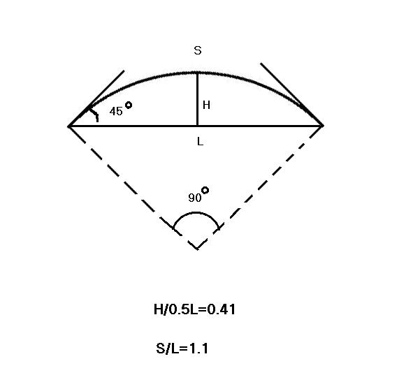 Diagram of a quarter circle arch bridge 1/4 圆弧桥券的扁平率